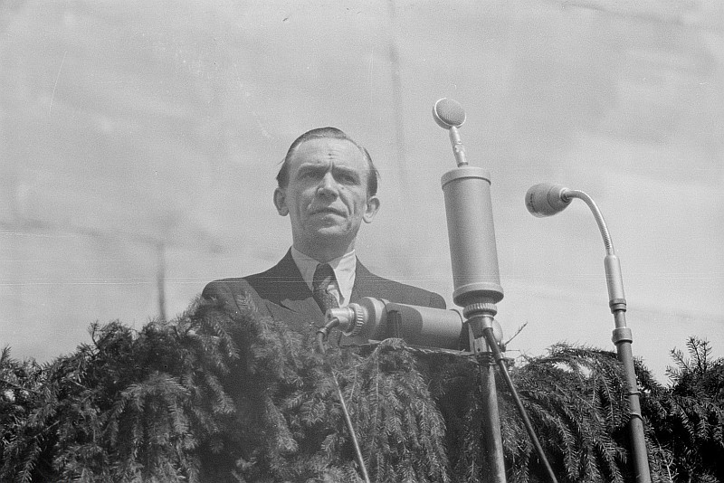 Original image description from the Deutsche Fotothek Anton Ackermann am Rednerpult